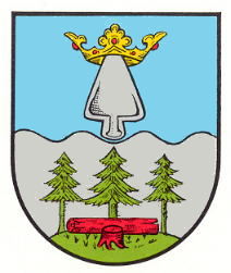 Coat of arms of Rumbach